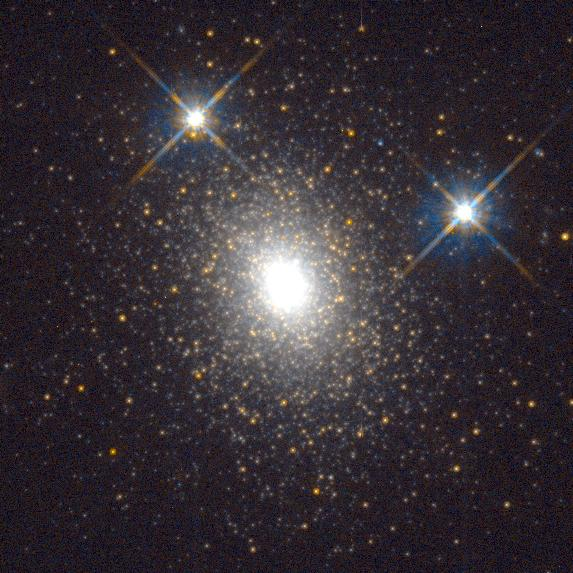 Globular clusteur G1 which orbits Andromeda galaxy is also known as Mayal II